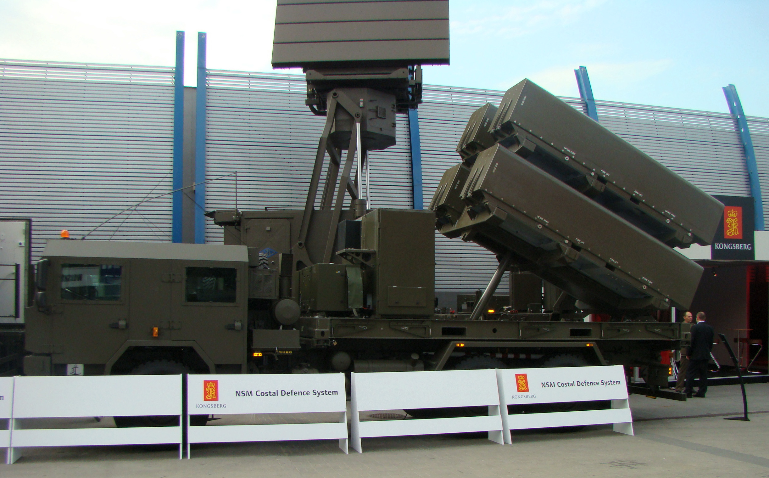 Jelcz P662D.43 Polish Army truck with NSM launcher - in a background another truck with TRS-15C Odra-C radar.